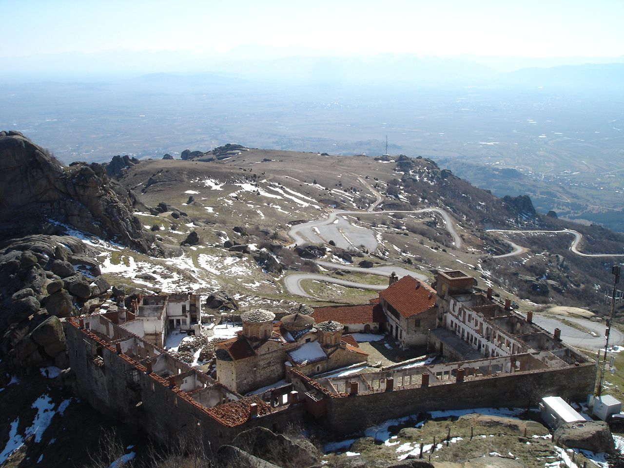 Treskavec Monastery-Macedonia